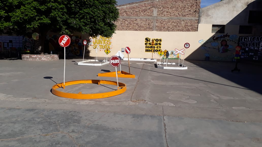 Science fair de Villa Regina